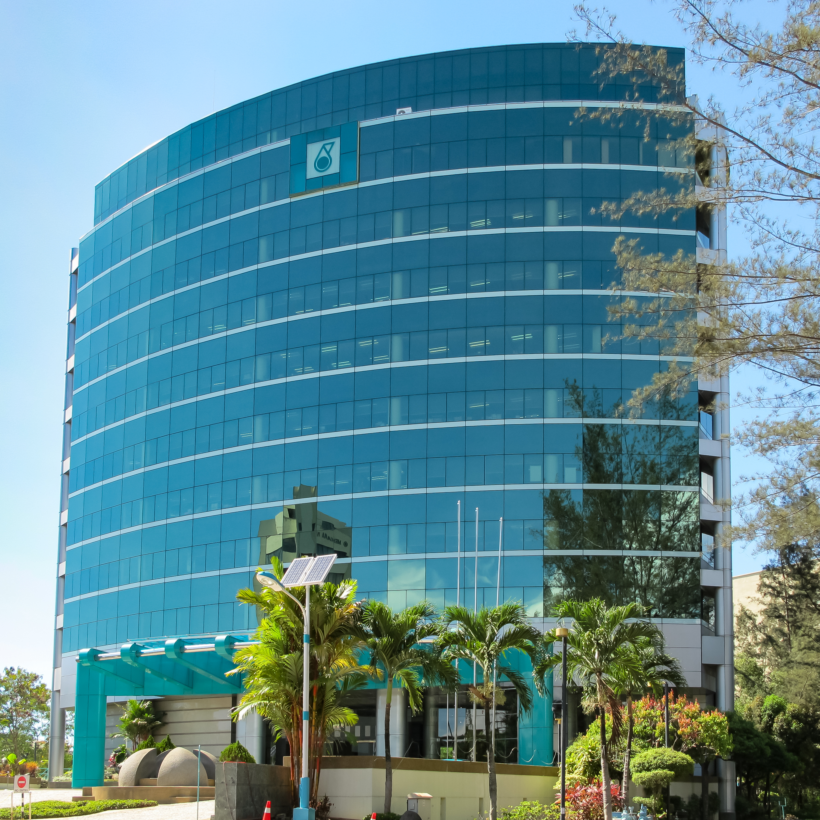 PETRONAS Office in Kota Kinabalu, Malaysia